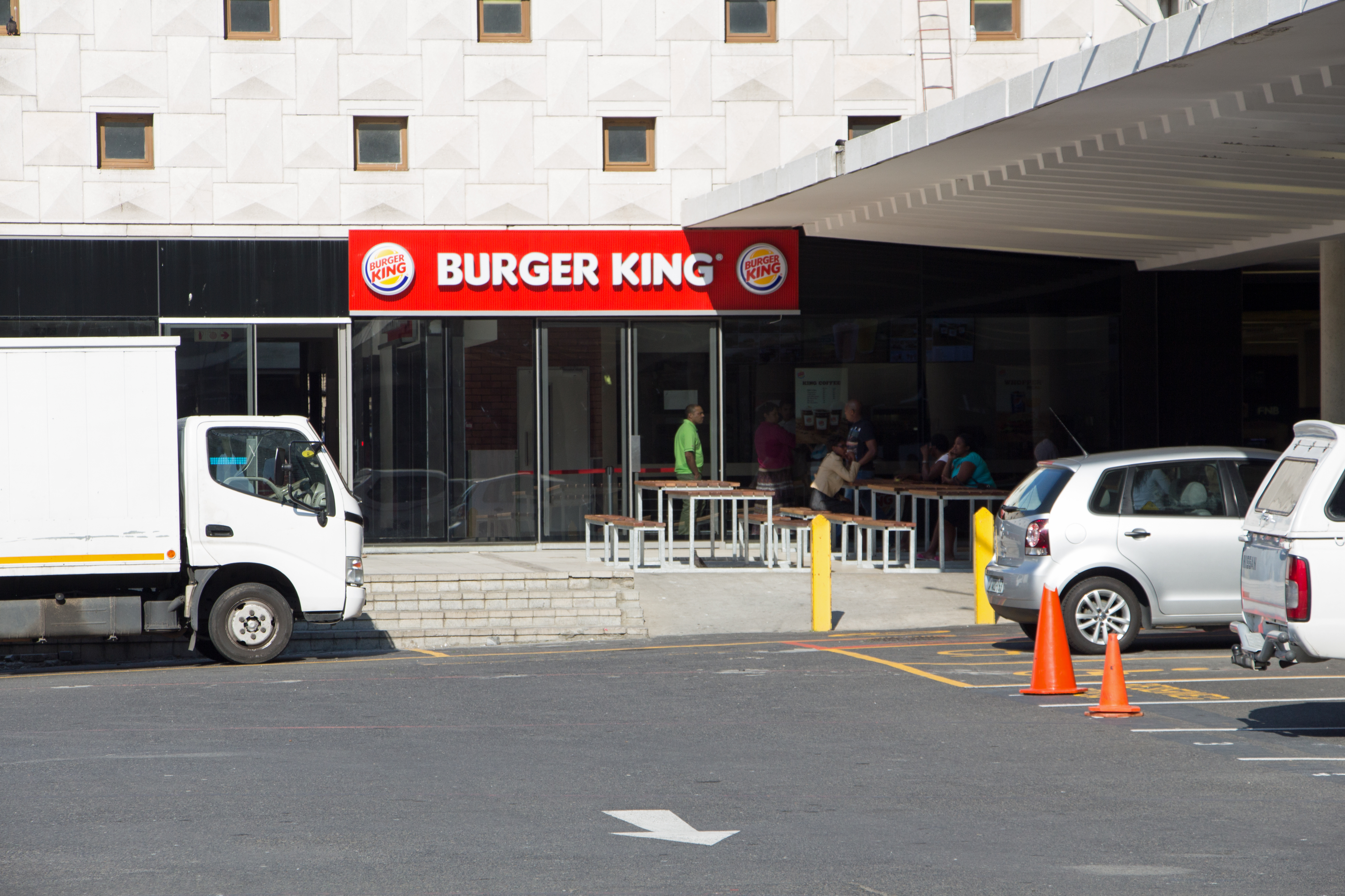 Burger King, Cape Town station, South Africa